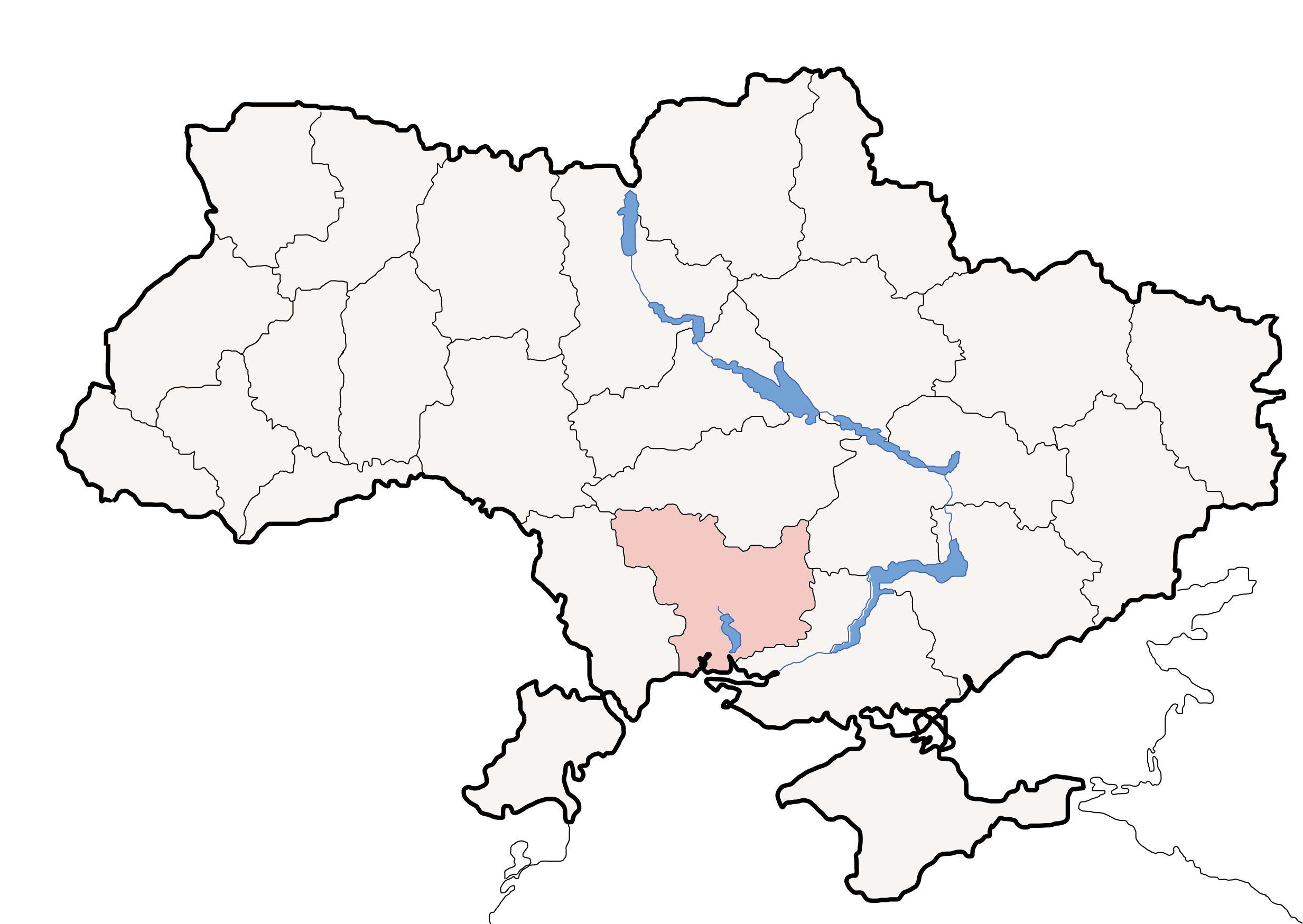 Political map of Ukraine, highlighting Mykolaiv Oblast